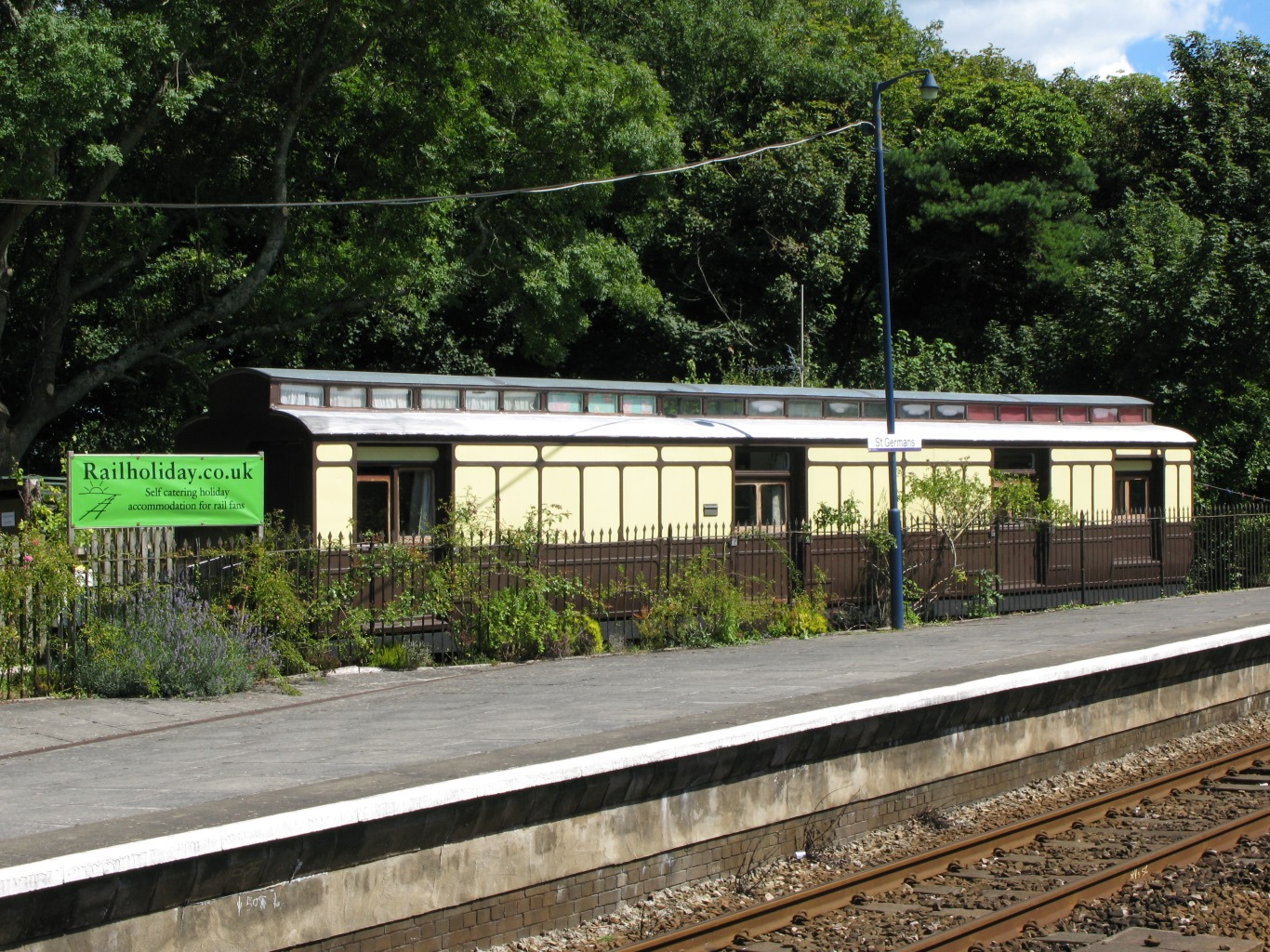 Ex-Great Western Railway Travelling Post Office (TPO) carriage in use as a camping coach at St Germans, Cornwall, United Kingdom